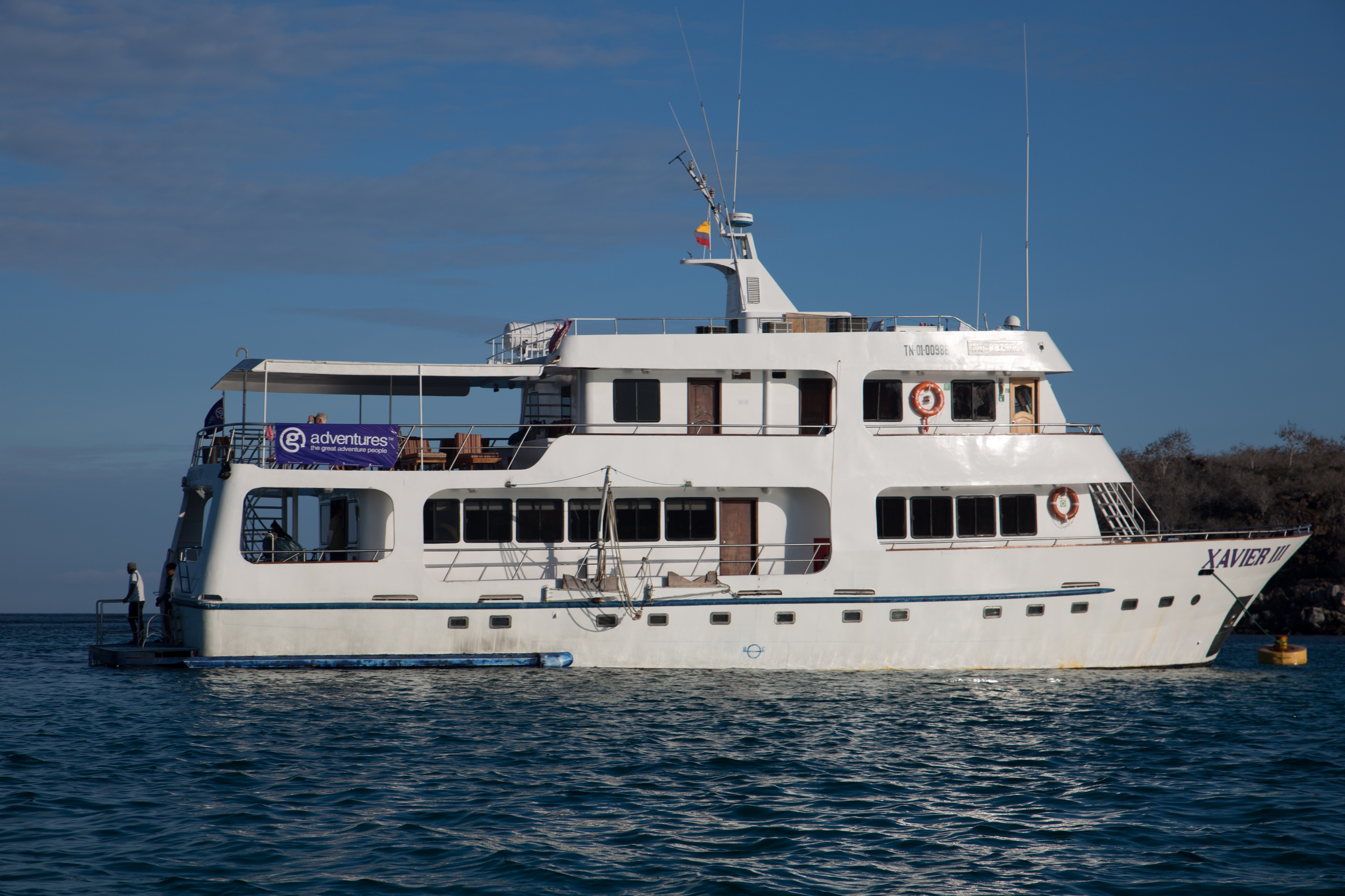 excursion to a lagoon on the N side of Isla Santa Fe...our home for eight days, Xavier III